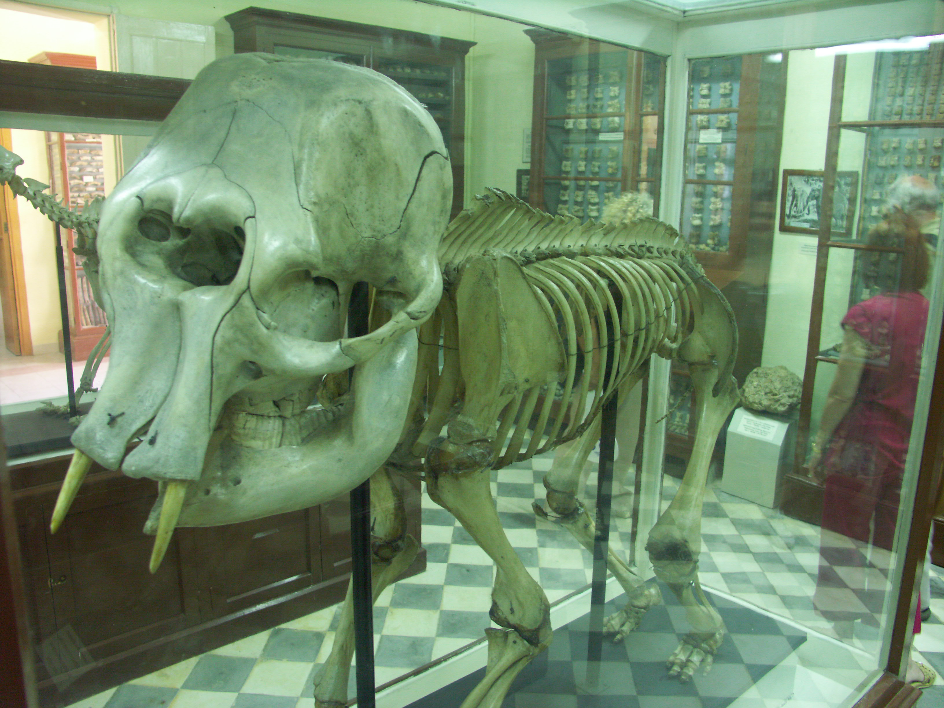 Eléphant nain trouvé Għar Dalam (Malte) This media is about Maltese cultural property with inventory number 29.